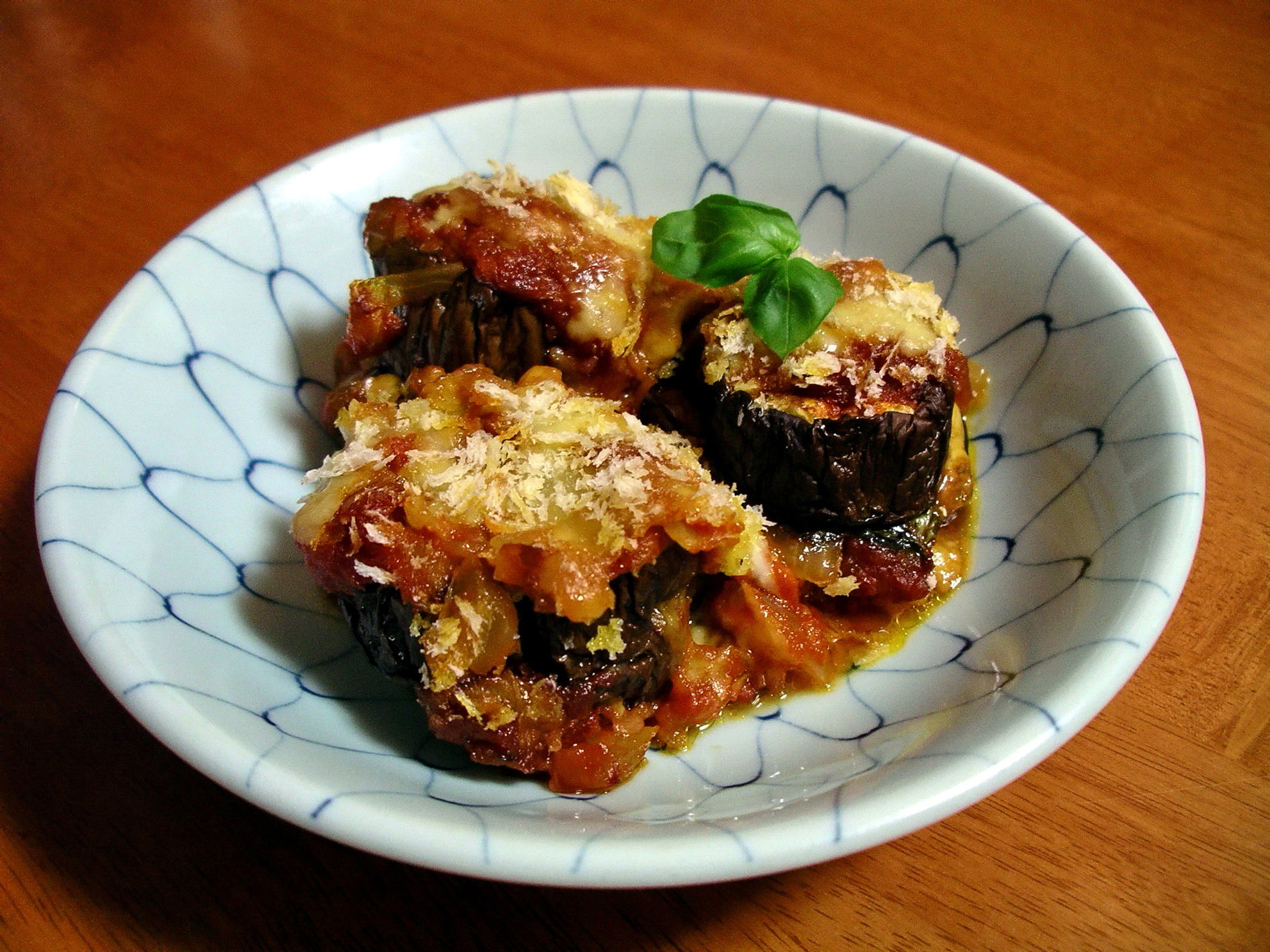 Melanzane alla Parmigiana, baked aubergines with Parmesan cheese.